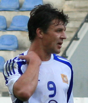 Vits Rimkus, Latvian football player